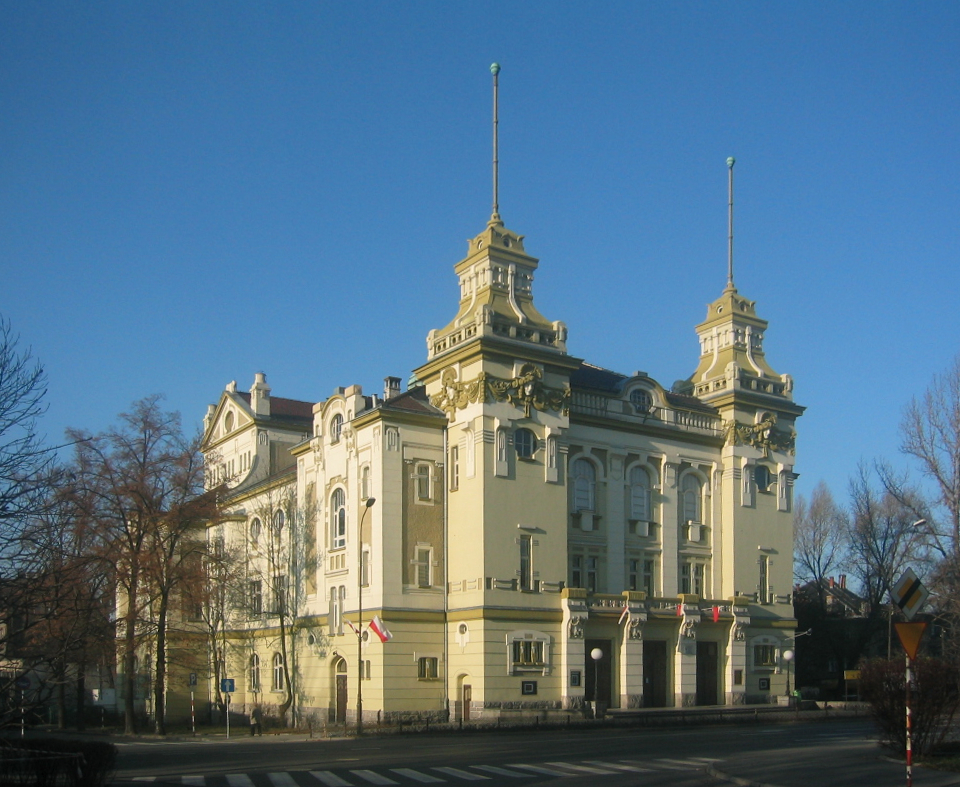 Jelenia Góra, Poland: Teatr im. Cypriana Kamila Norwida, opened 1904